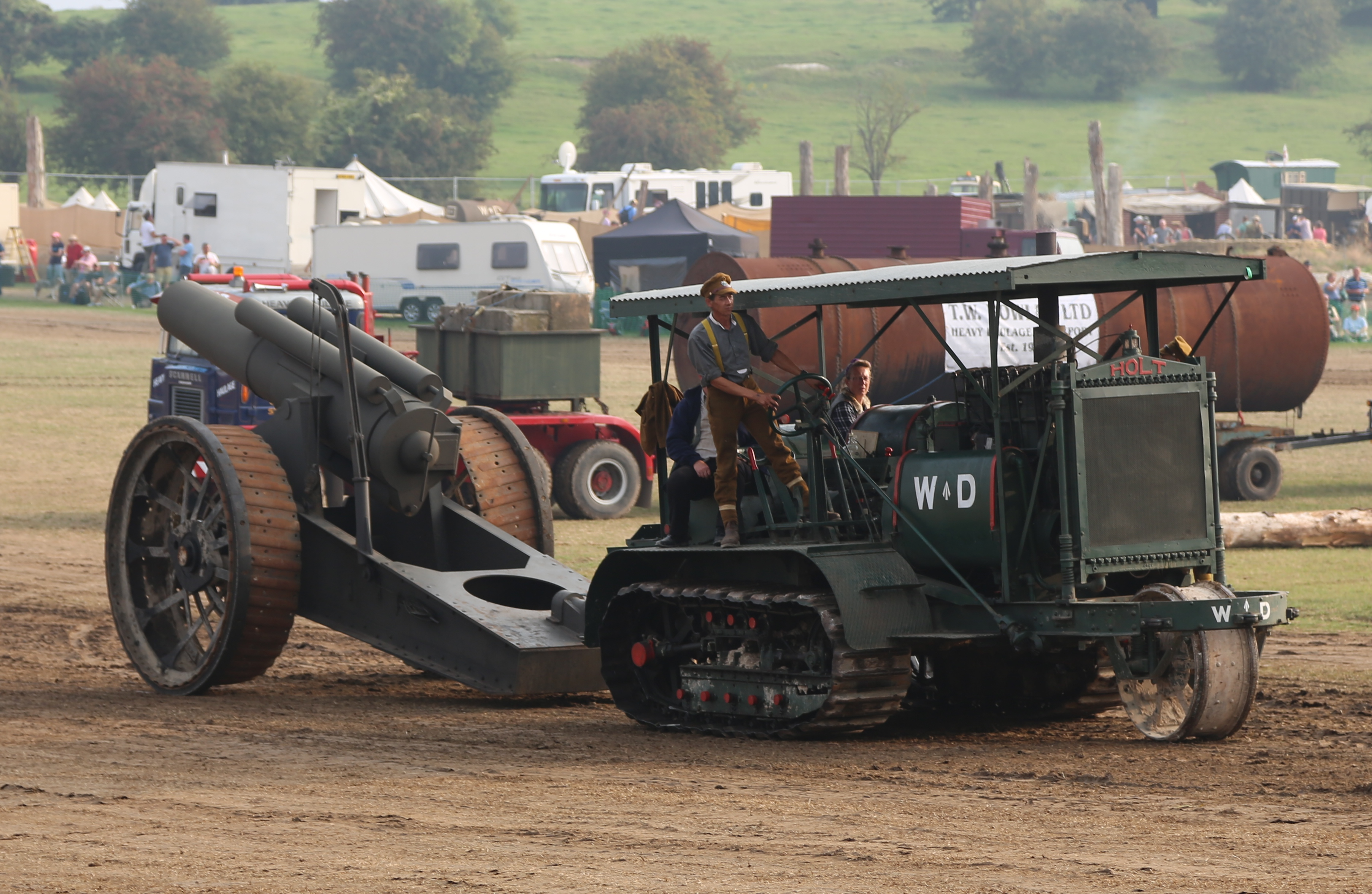 Photo of a Holt 75 Gun tractor towing a replica 8 inch gun at Great Dorset Steam Fair